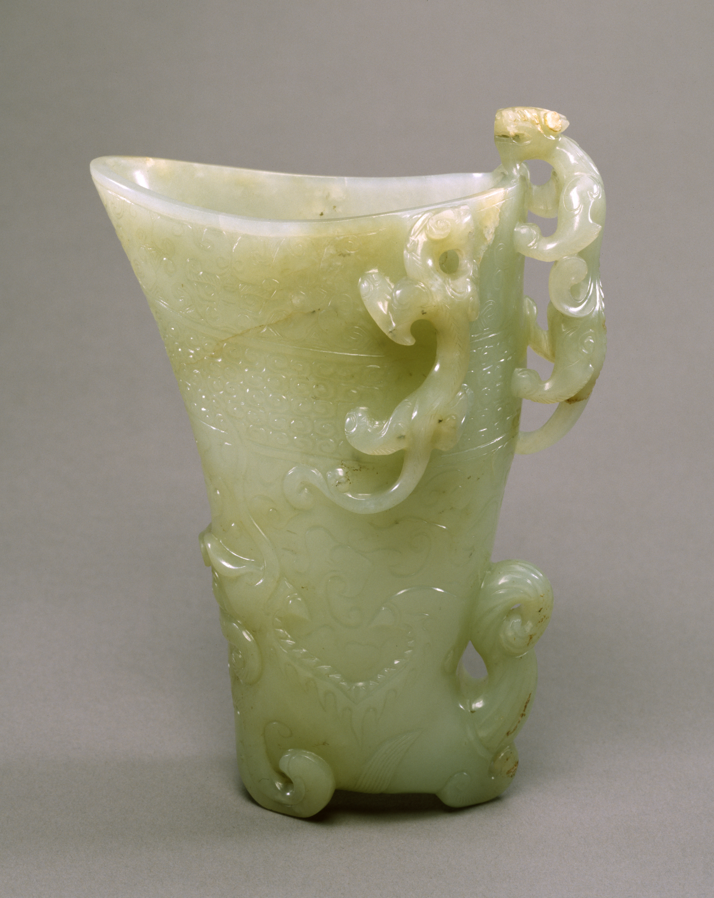 This dull green jade rython cup sits on the horns and tail of a monster-mask near its base. A tiger headed creature peers over its rim and another with a bird tail lifts its head up to the edge of the rim. A third smaller creature climbs up the cup's side. The upper portion of the cup presents a band fo incised monster-masks and rui heads.